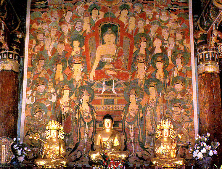 Yeongsanhoesangdo(the picture of the scene where the Buddha preached) at Bulyeongsa temple in Uljin, Korea